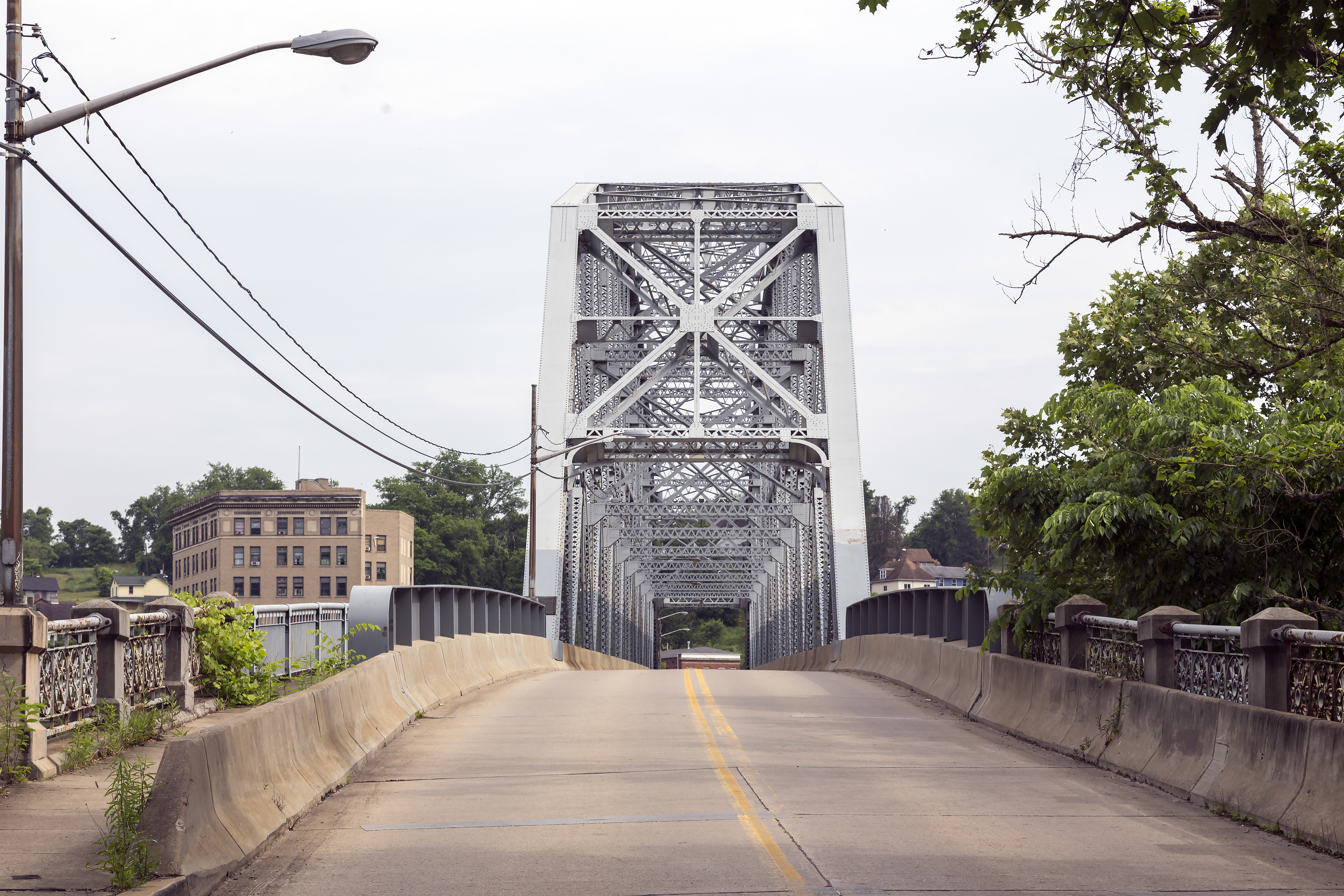 The Brownsville Bridge across the Monongahela River, Brownsville, Pennsylvania, USA, looking east from West Brownsville